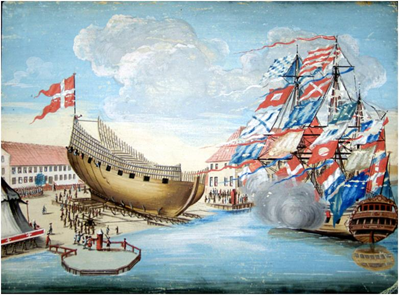 Ships of the Royal Danish Navy at Gammelholm, Copenhagen.